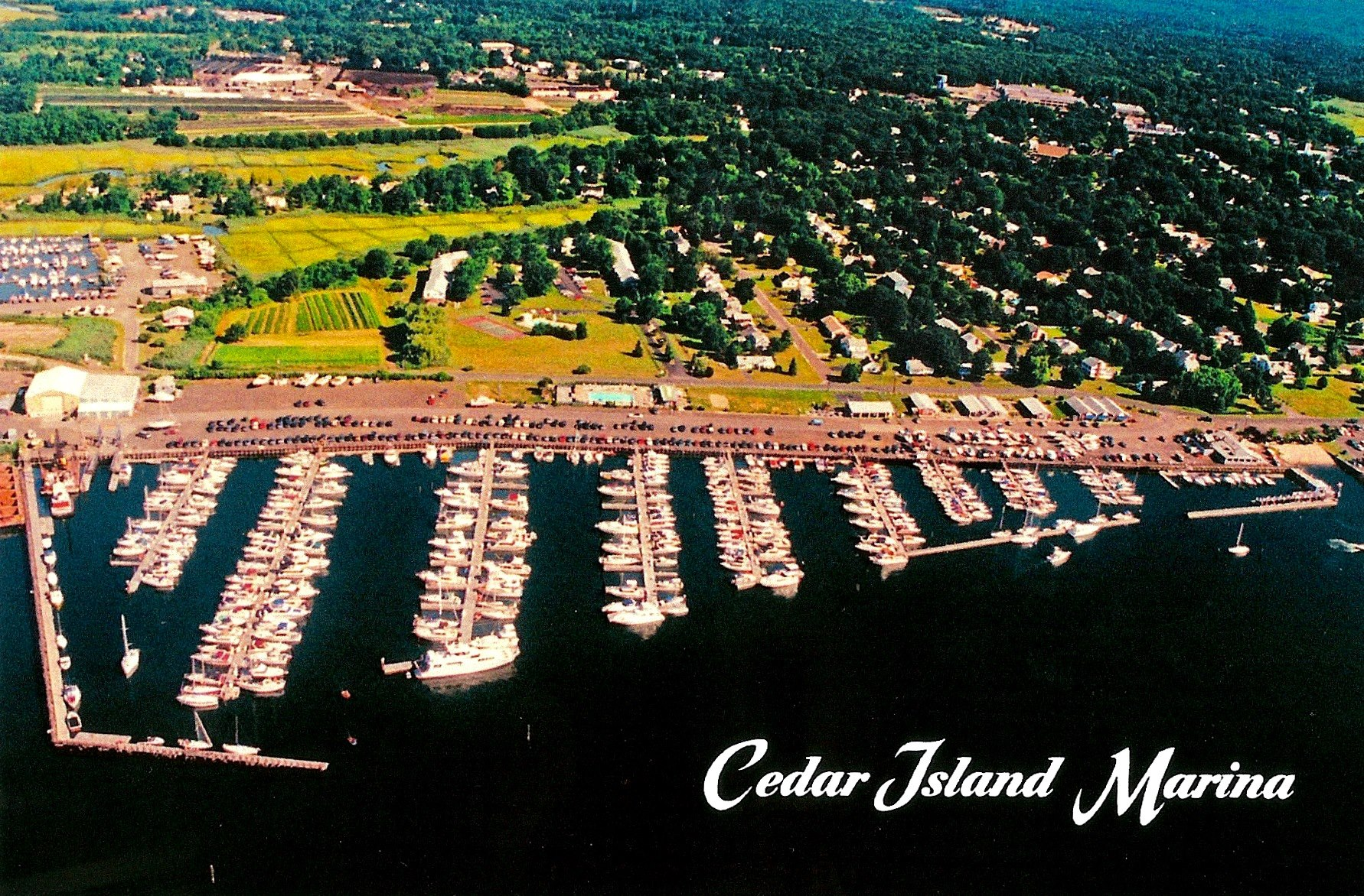 Overhead of Cedar Island Marina